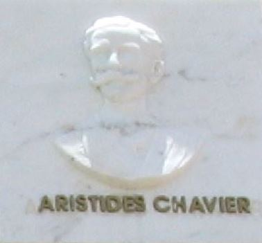 Arístides Chavier Arévalo, de Ponce, Puerto Rico, ca. 1900 (IMG 3386)